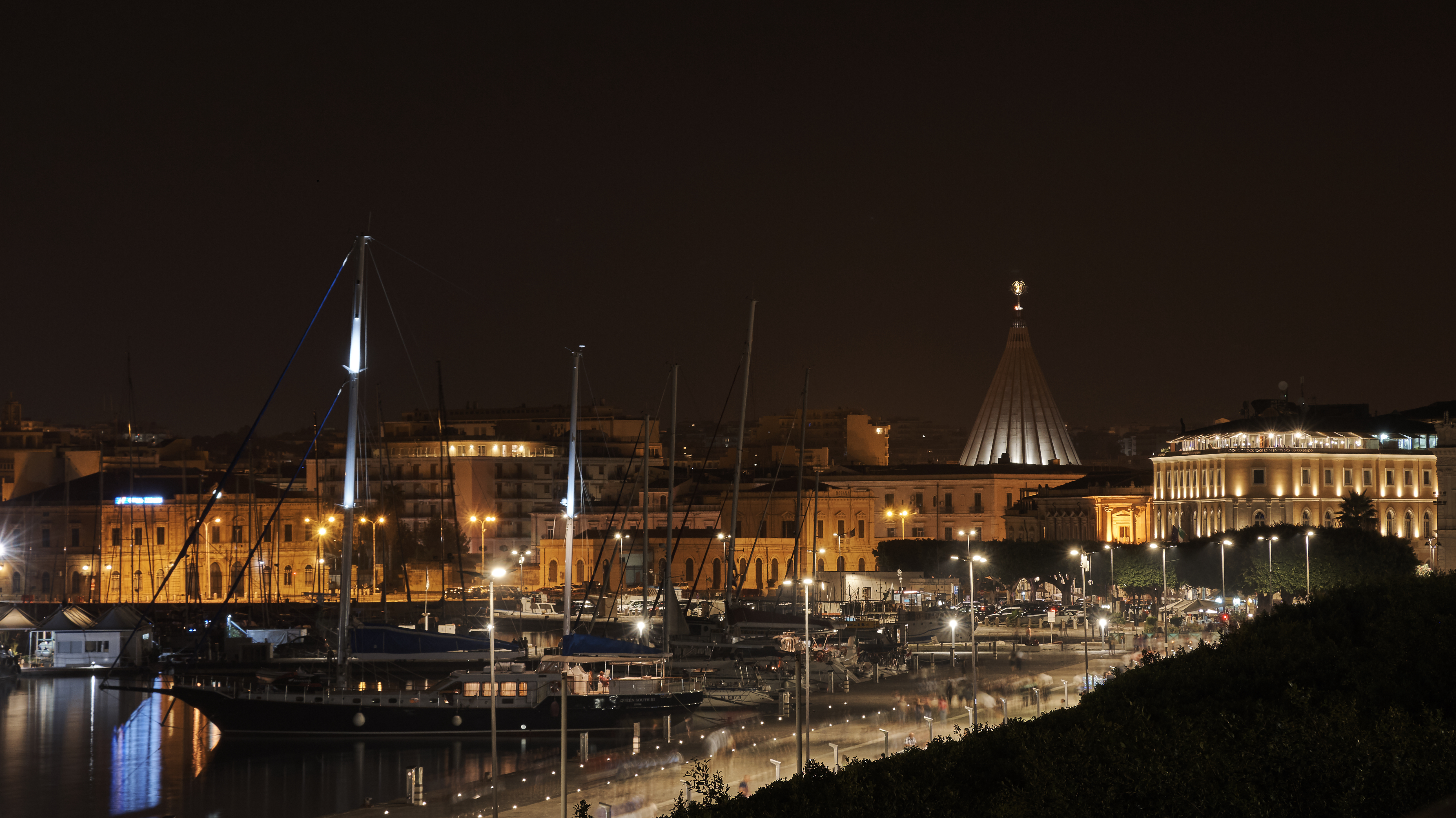 Harbour of Syracuse